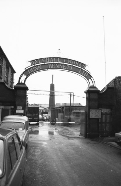 Dalehall works, Burslem Was Steelite International when I visited although the earlier name was over the gateway. There was still a working stationary steam engine here then, although it's long been stopped now. The company majored in crockery for hotels and the NHS etc.